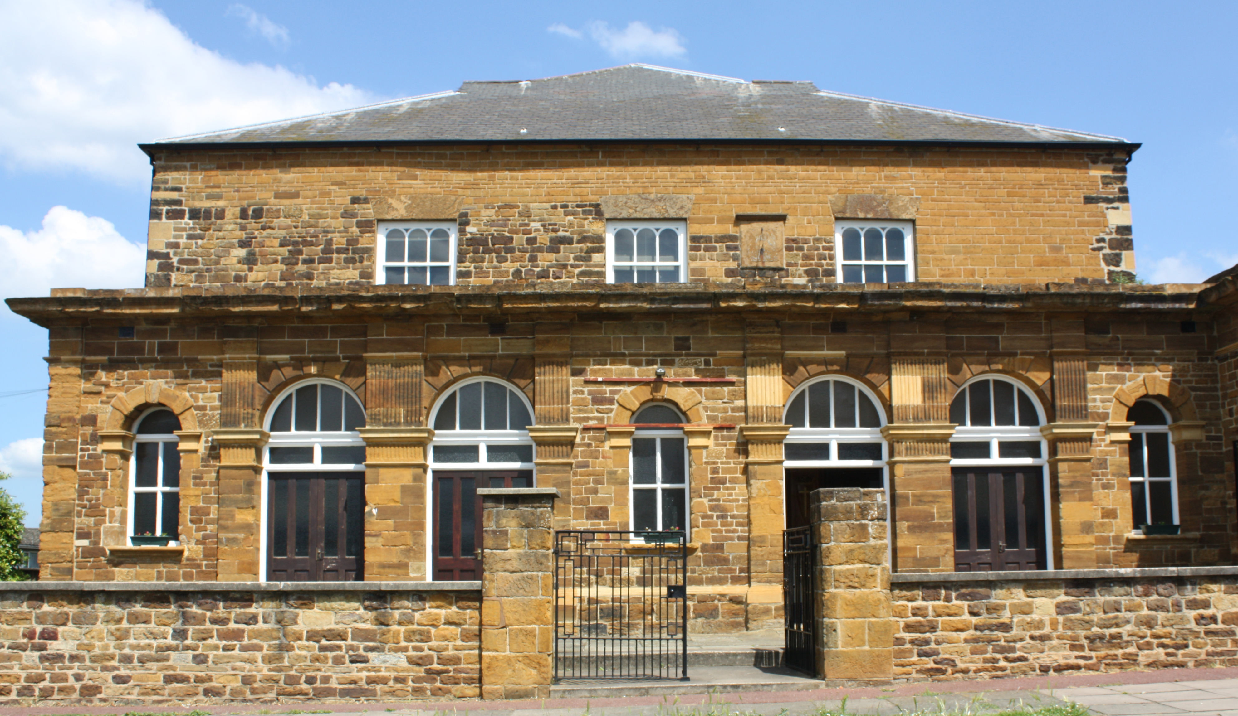 Doddridge URC, Northampton, England